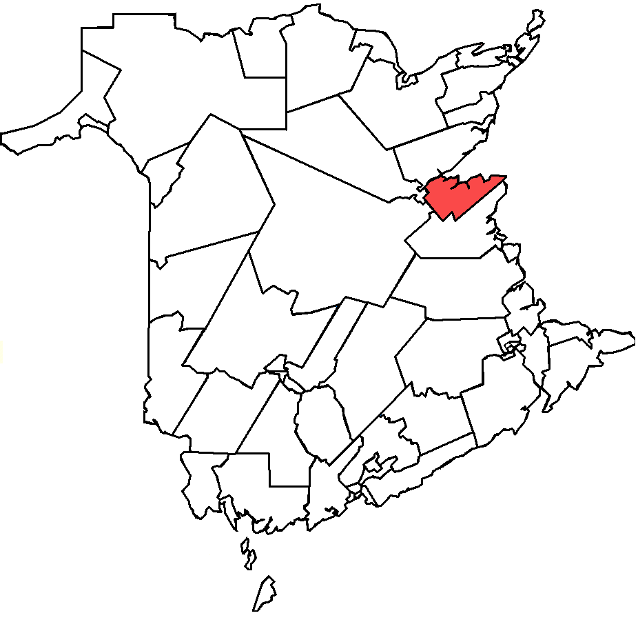 Map of Miramichi-Bay du Vin